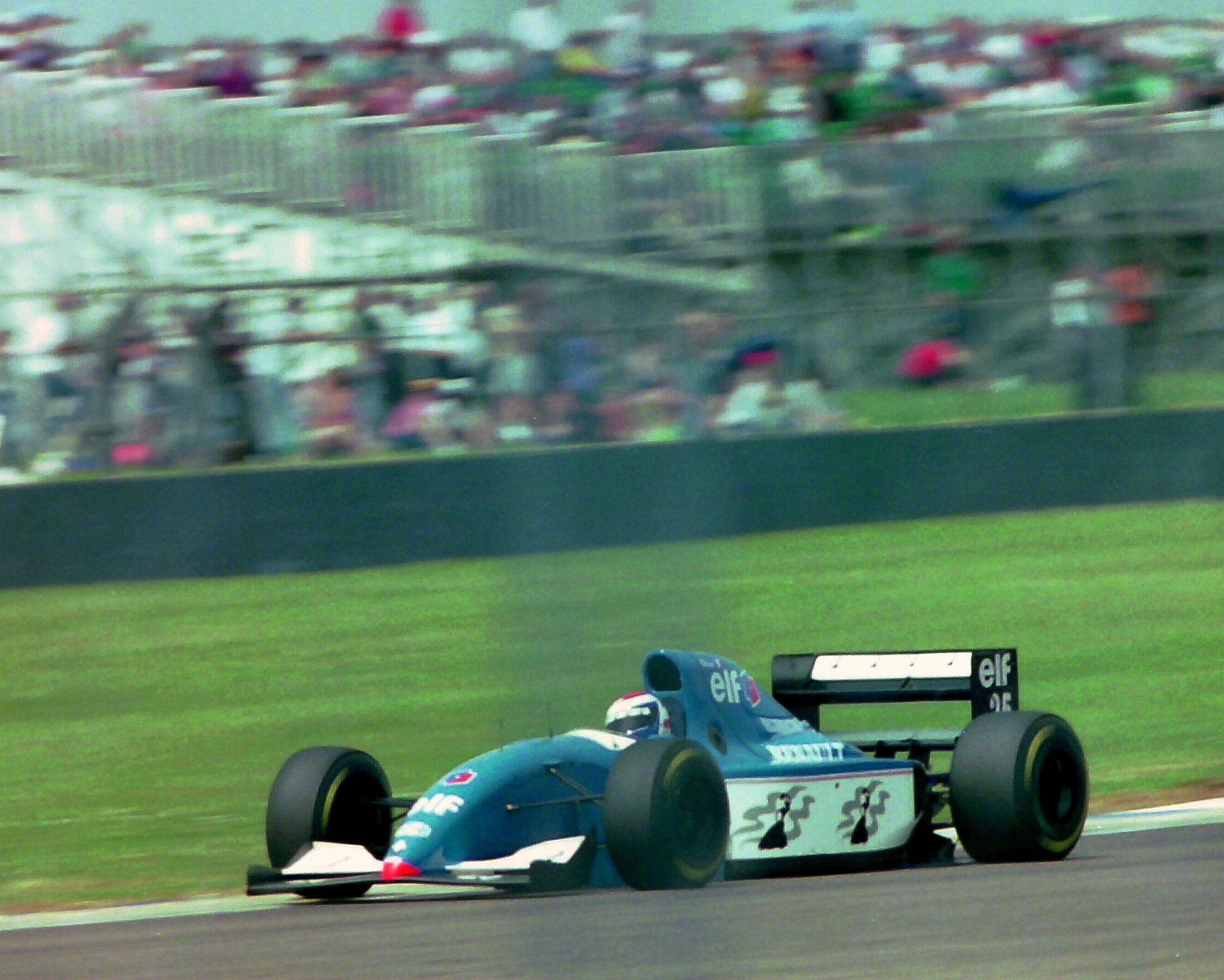 Eric Bernard - Ligier JS39B at the 1994 British Grand Prix